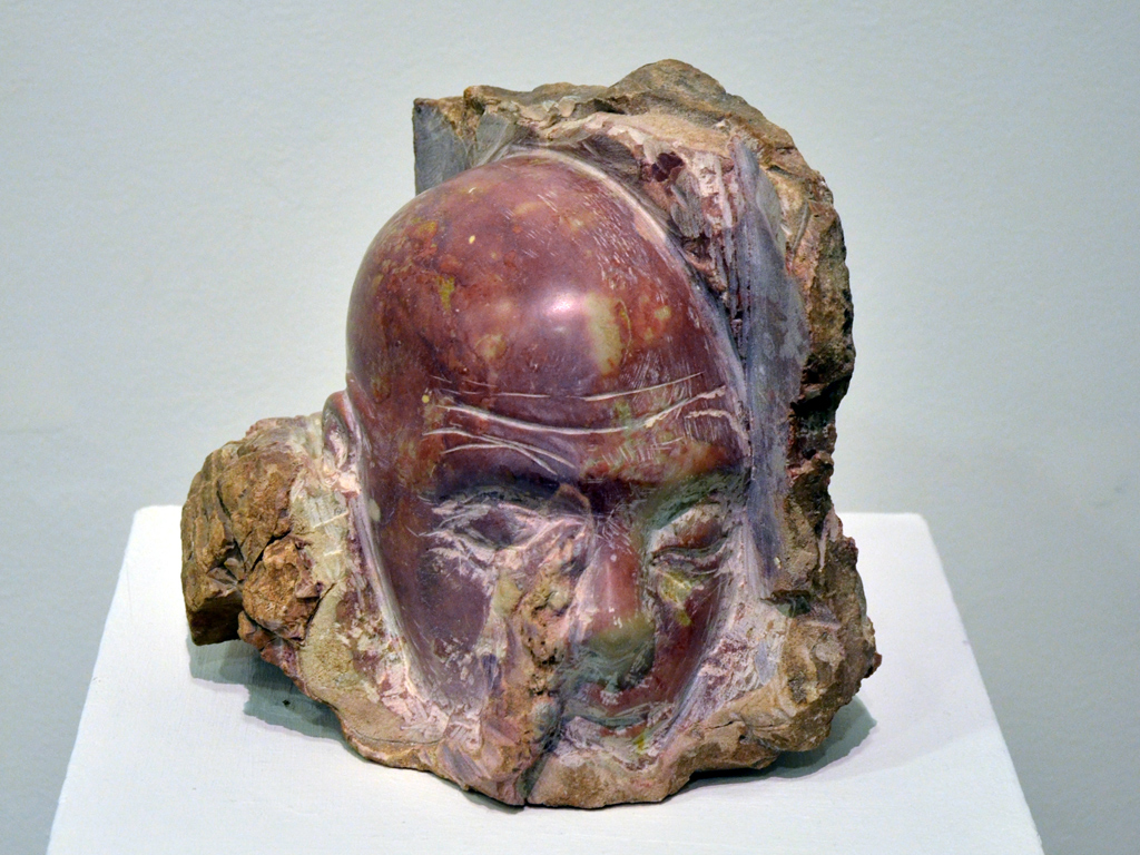 Sculpture by Ludmila Seefried-Matějková, Emergent, red marble (1997)